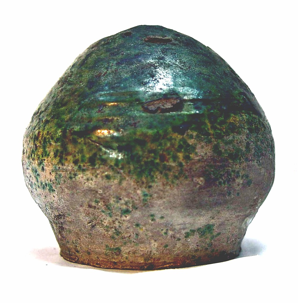 Late medieval British, Tudor money box, sometimes referred to as a Tudor money pot. Commonly used in Britain from the 1300s to the 1600s. Sealed pot with vertical coin slot for depositing coins. Money would be retrieved when the pot was full, by smashing the pot.